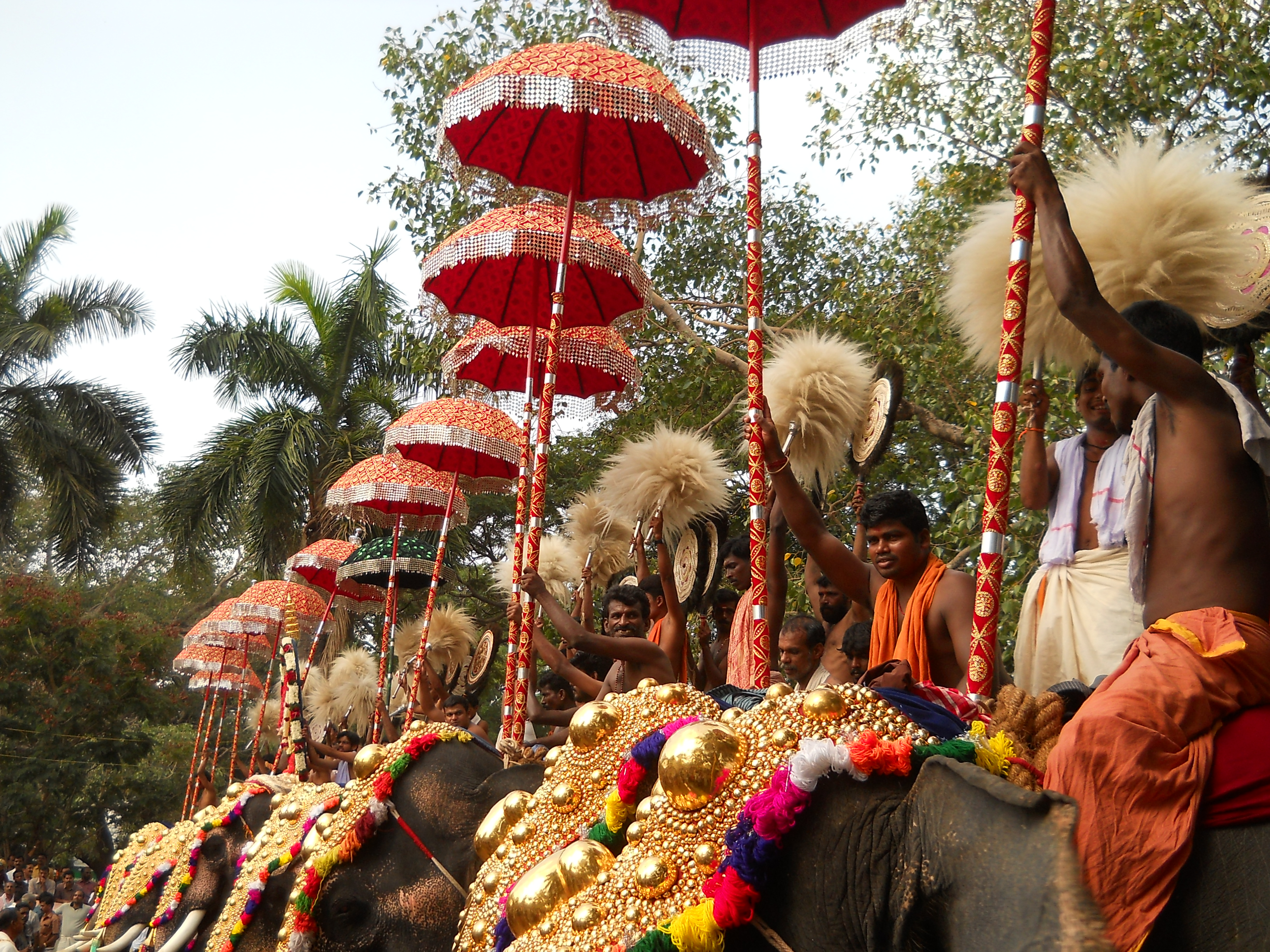 This media file is uploaded with Malayalam loves Wikimedia event - 2. പൂരക്കാഴ്ചകള്‍, തൃശ്ശൂര്‍ പൂരം 2011